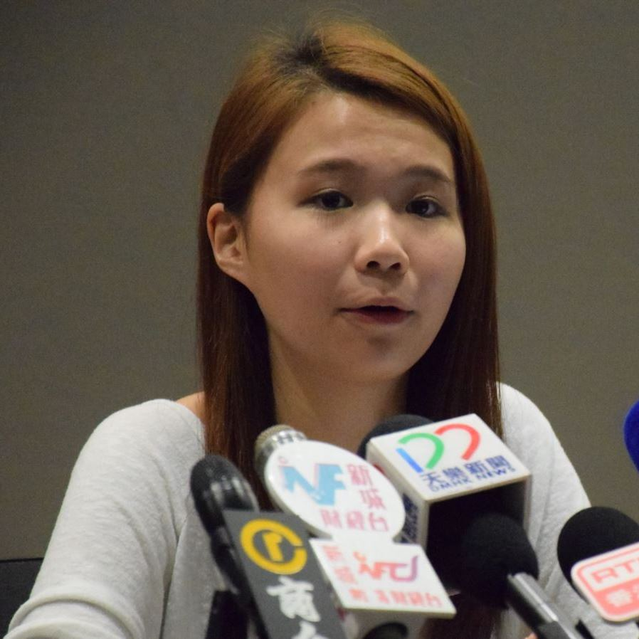 Glacier Kwong